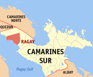 Map of Camarines Sur showing the location of Ragay